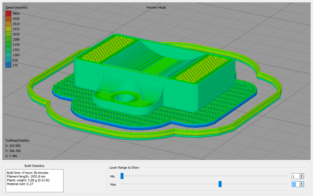 Slicer preview of a 3D model preparing for print